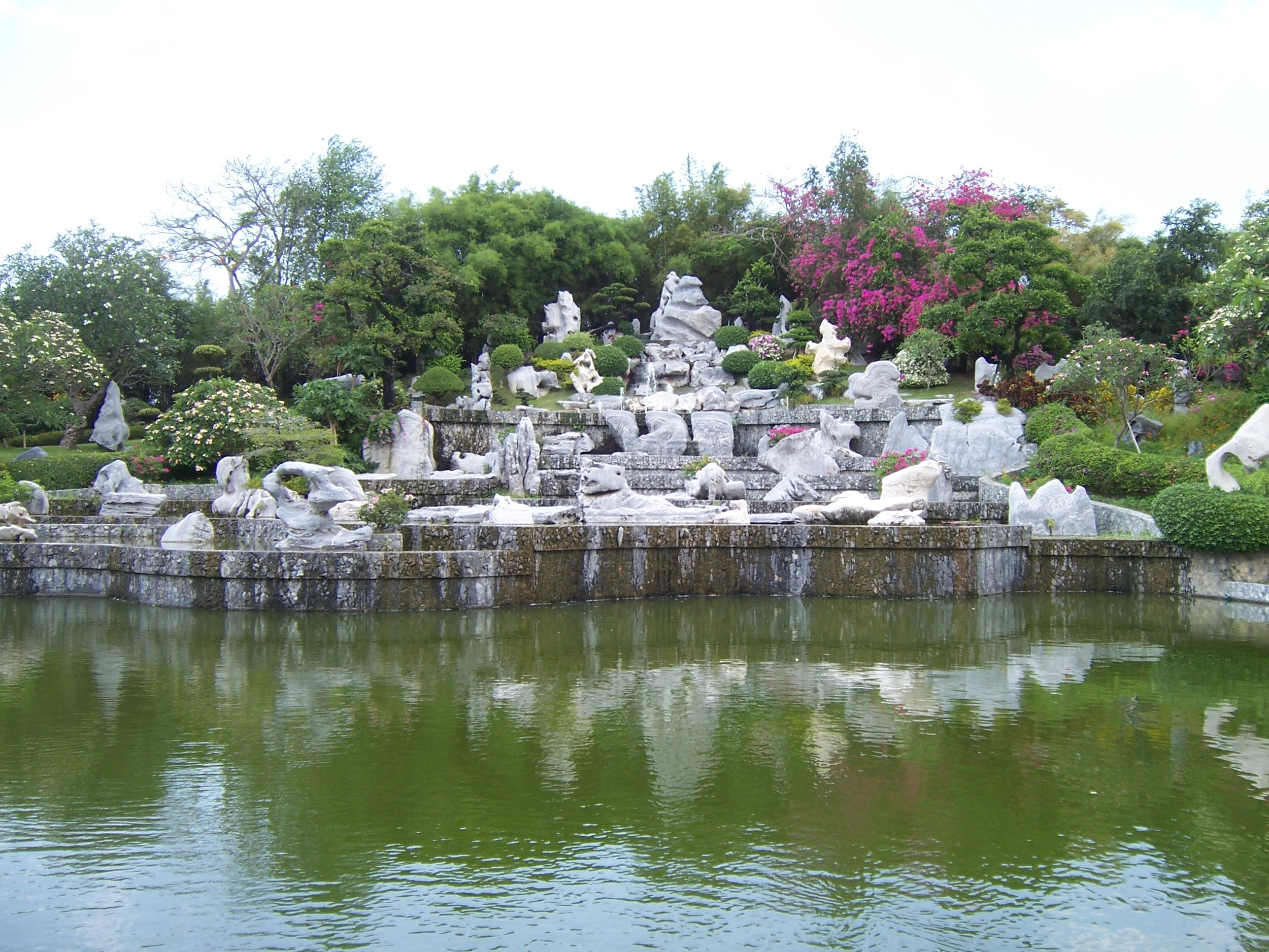 The Million Years Stone Park & Pattaya Crocodile Farm